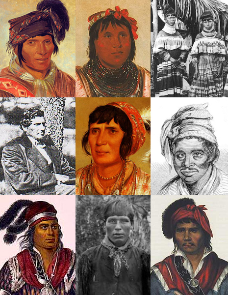 A Seminole collage